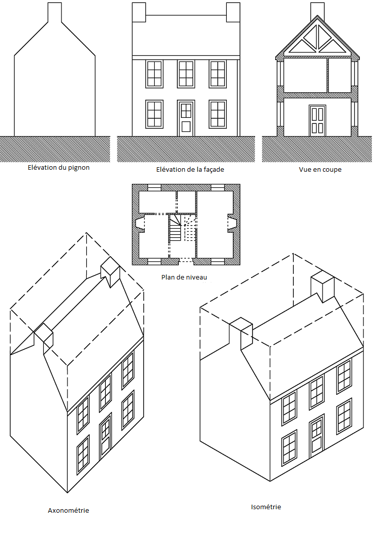 Dessins d'architecture